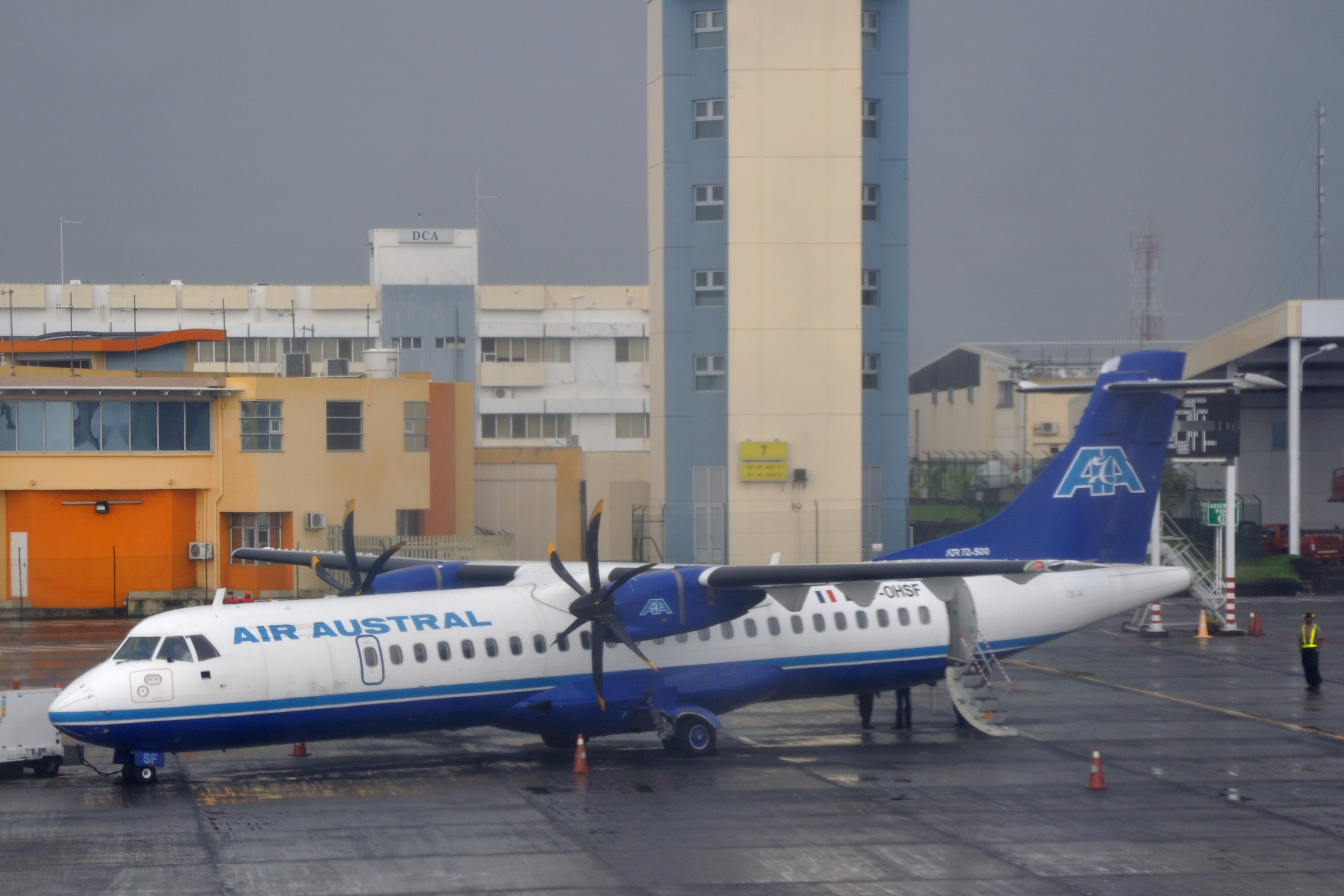 Mauritius, spotting at Sir Seewoosagur Ramgoolam International Airport